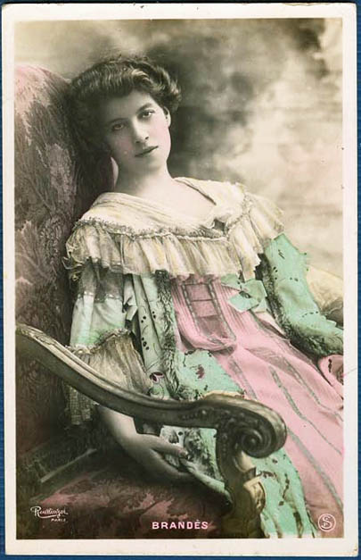 Marthe Brandes